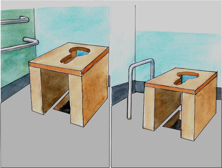 Seat and handrails for increasing accessibility (Tanzania) The seats are simply made from concrete blocks with side of a pit latrine hole and with a smooth varnished seat cover which is easily cleanable. The two pictures also provide two examples of handrail designs, one fixed to the floor and one to the wall. The height of the seat, the handrails and the space in the latrine should be tested with people with disabilities before finalising designs as heights that are too high or low or spaces which are too small can limit the accessibility of the latrine. Picture by: Government of the United Republic of Tanzania / Rashid Mbago